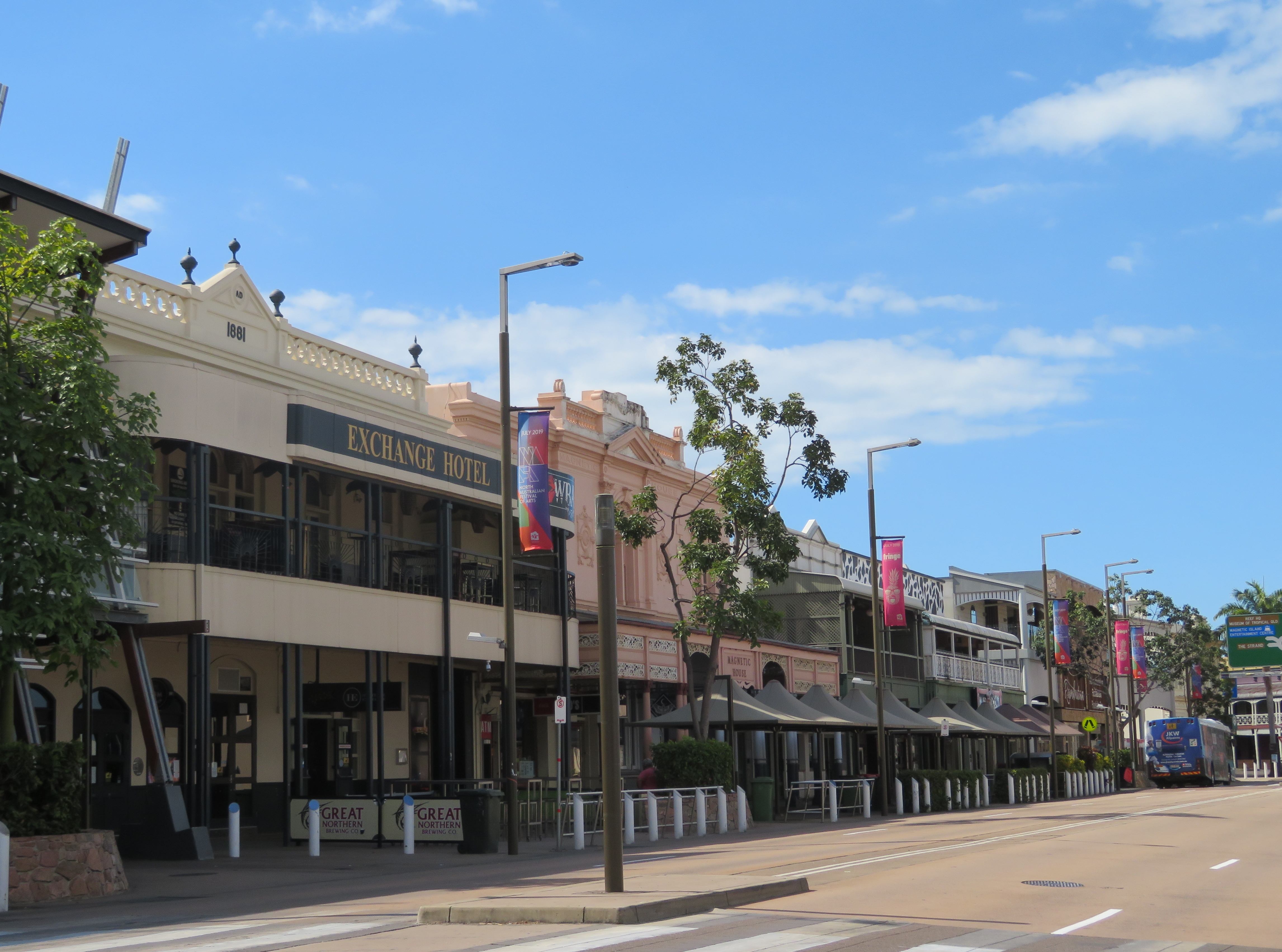 Flinders St, Townsville, Queensland, Australia